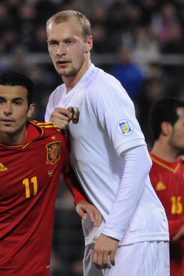 Belarusian football player Maksim Bardachow (Максім Бардачоў) during 2014 World Cup qualifier against Spain